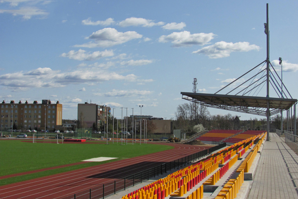 Grandstand on stadium "Arena" in Żagań